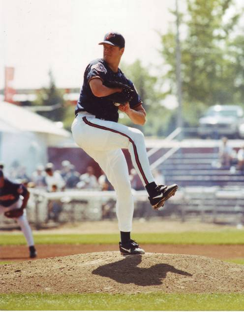 Jim Abbott pitching during a 1998 Calgary Cannons minor league baseball game. Released upon request by John Traub, General Manager of the Albuquerque Isotopes Baseball Club (the successor to the Calgary Cannons), June 21, 2008.